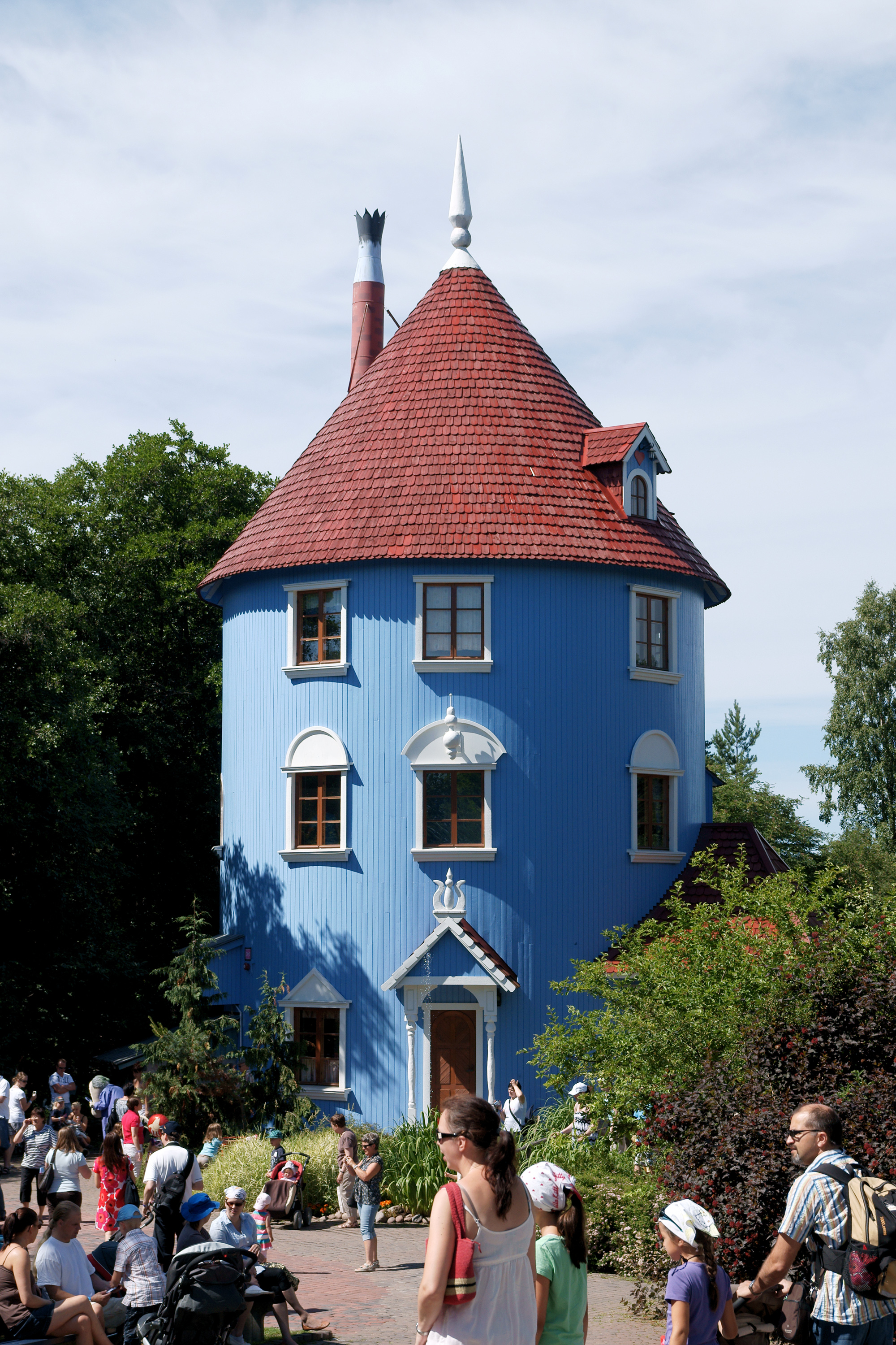 Human-size Moominhouse in Moomin World theme park, Naantali, Finland.